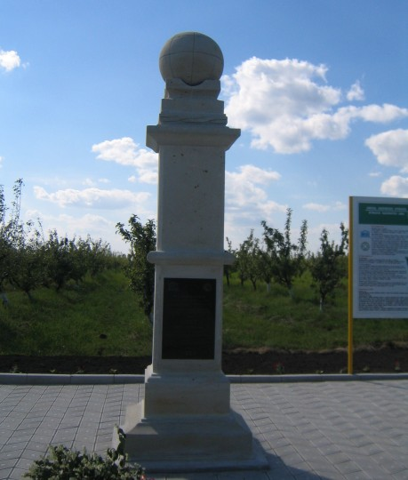 A station point of the Struve Geodetic Arc in Rudi, Moldova (Rudi Geodetic Point)